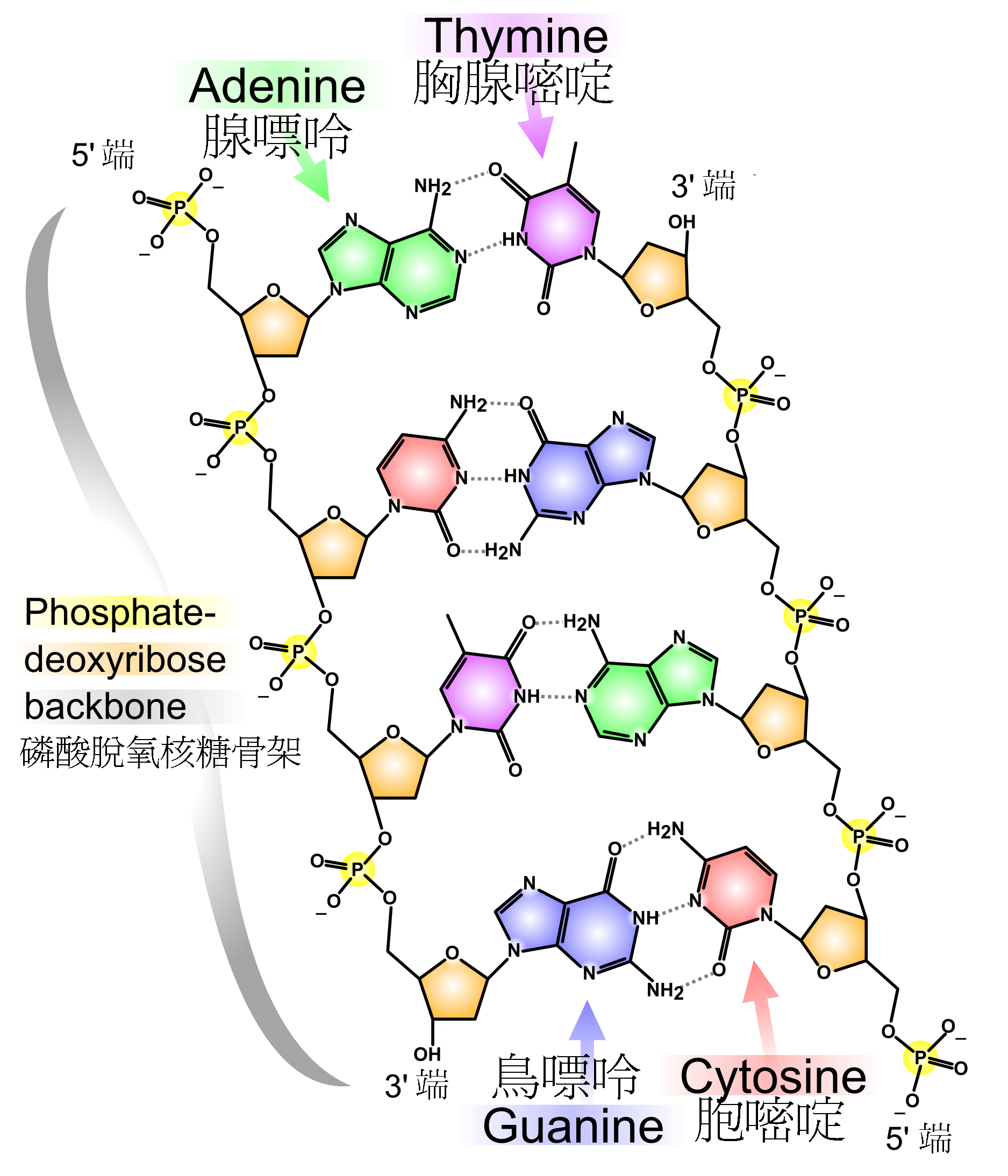 Image:DNA chemical structure.svg in Chinese language